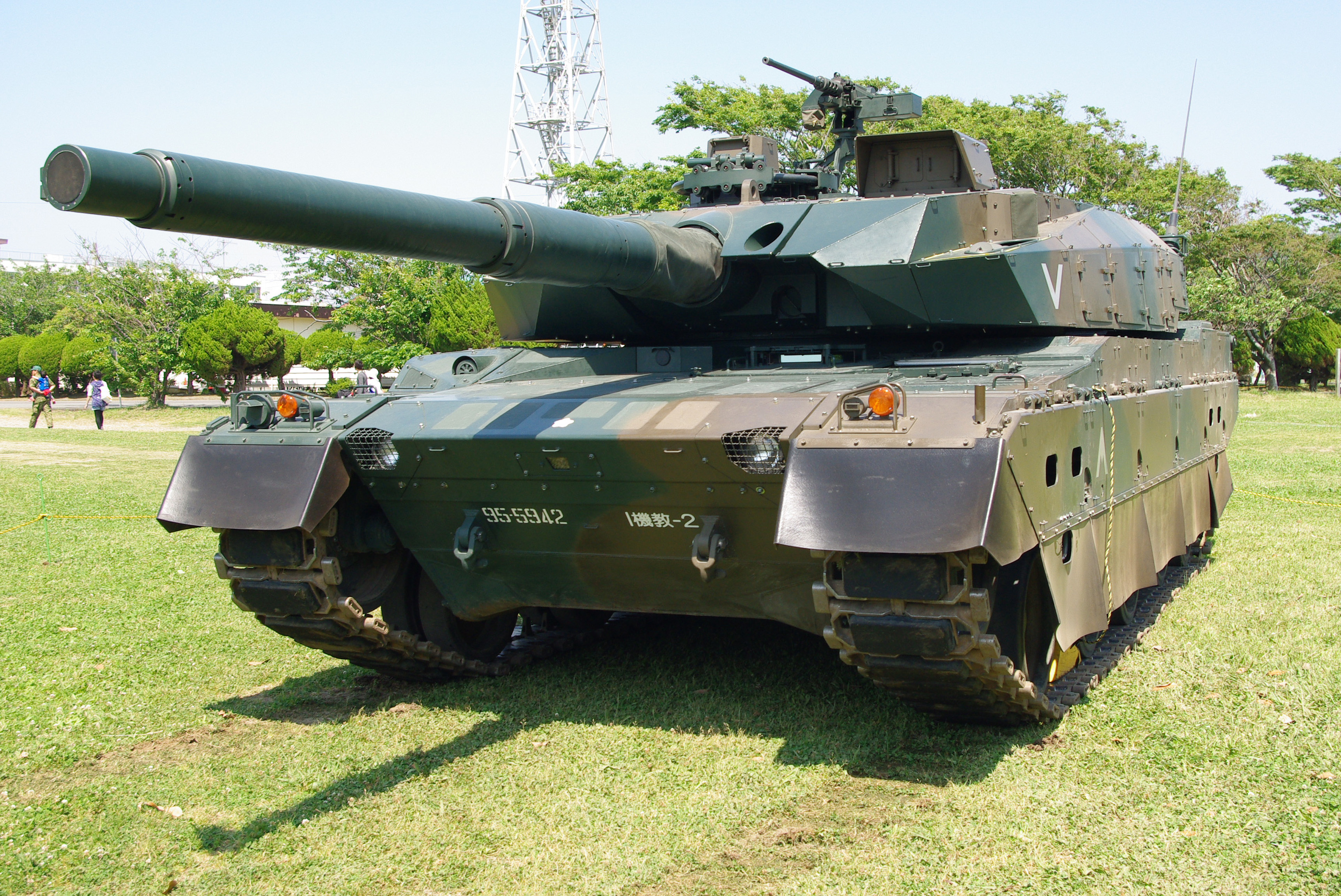 JGSDF Type10 Tank (production model),1st Armored Training Unit/Eastern Army Combined Brigade.Taken by Los688,in Camp Takeyama,Japan,at 27-May-2012.PD-self ja:10式戦車（量産型）2012年05月27日、東部方面混成団第1機甲教育隊 武山駐屯地で撮影。